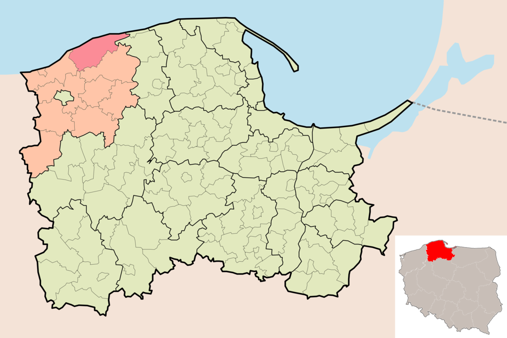 Locator map for communes (gmina) in pomorskie, with powiat highlighted Map - PL - powiat slupski - Smoldzino.PNG